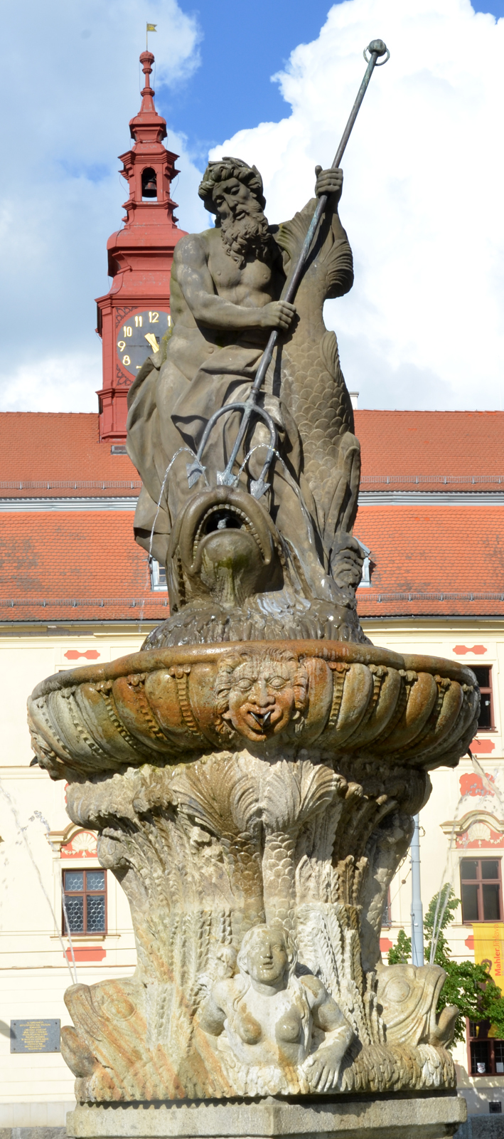 Neptun fountain by Czech baroque sculptor Jan Václav Prchal, Jihlava